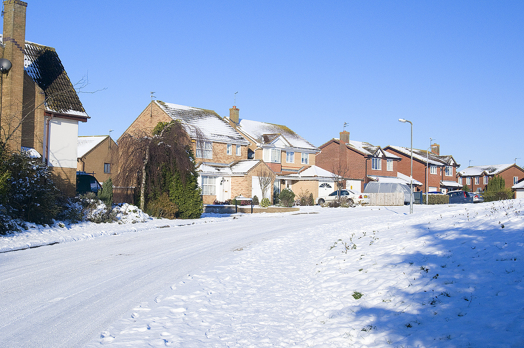 A typical residential road on the Oakley Vale development in Corby